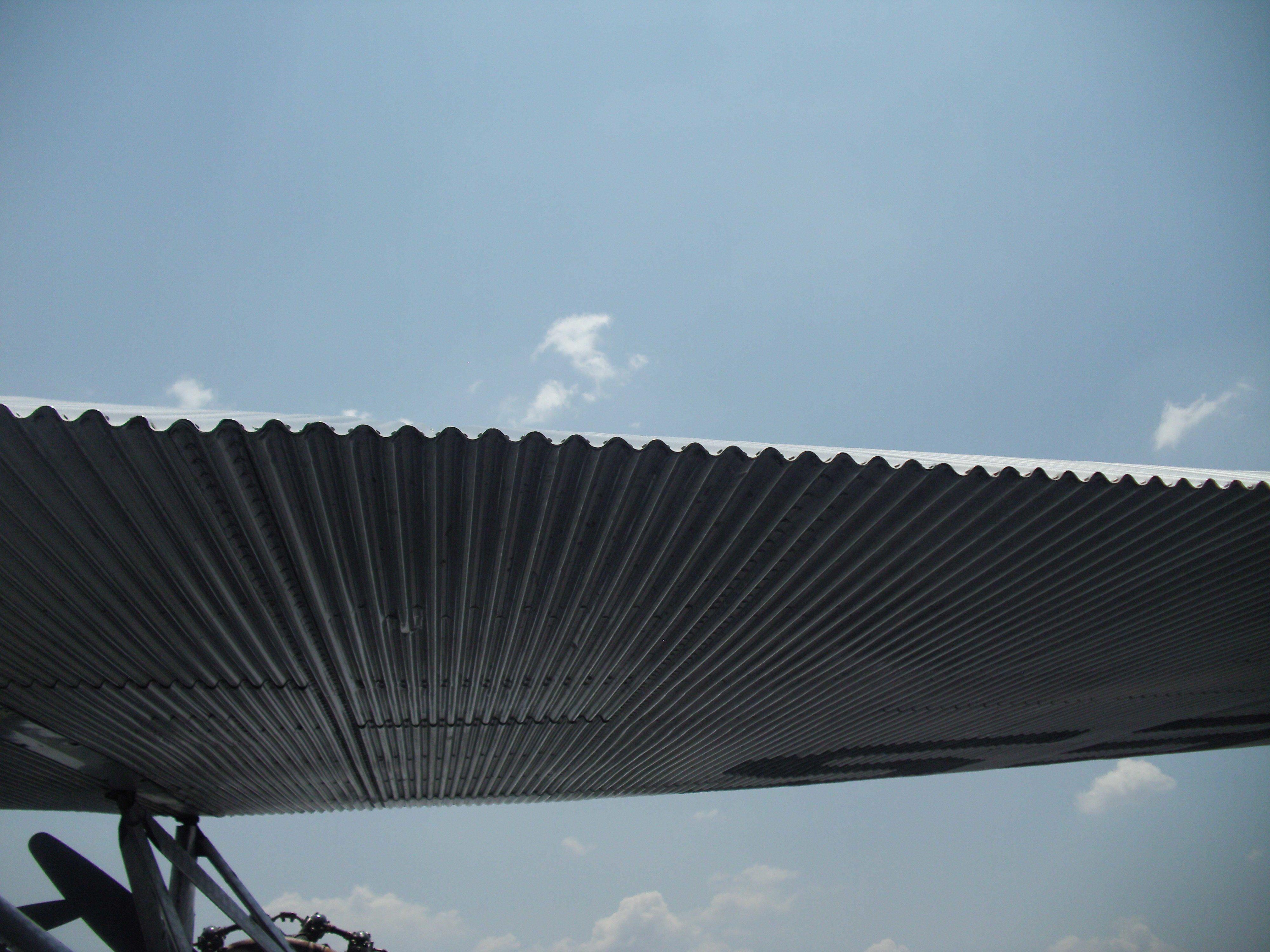 This image shows the corrugated wing surface of a Ford Trimotor aircraft, specifically NC8407.